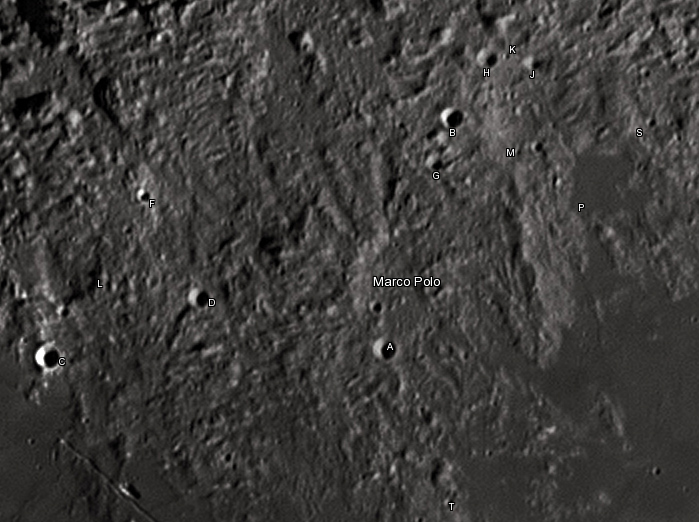 Marco Polo lunar crater as seen from Earth with satellite craters labeled